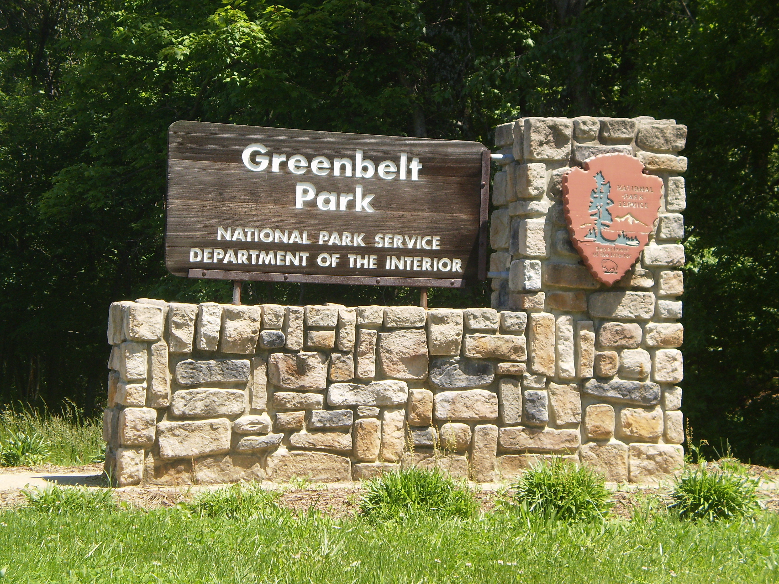 Sign leading into the Greenbelt Park — in Greenbelt, Maryland.